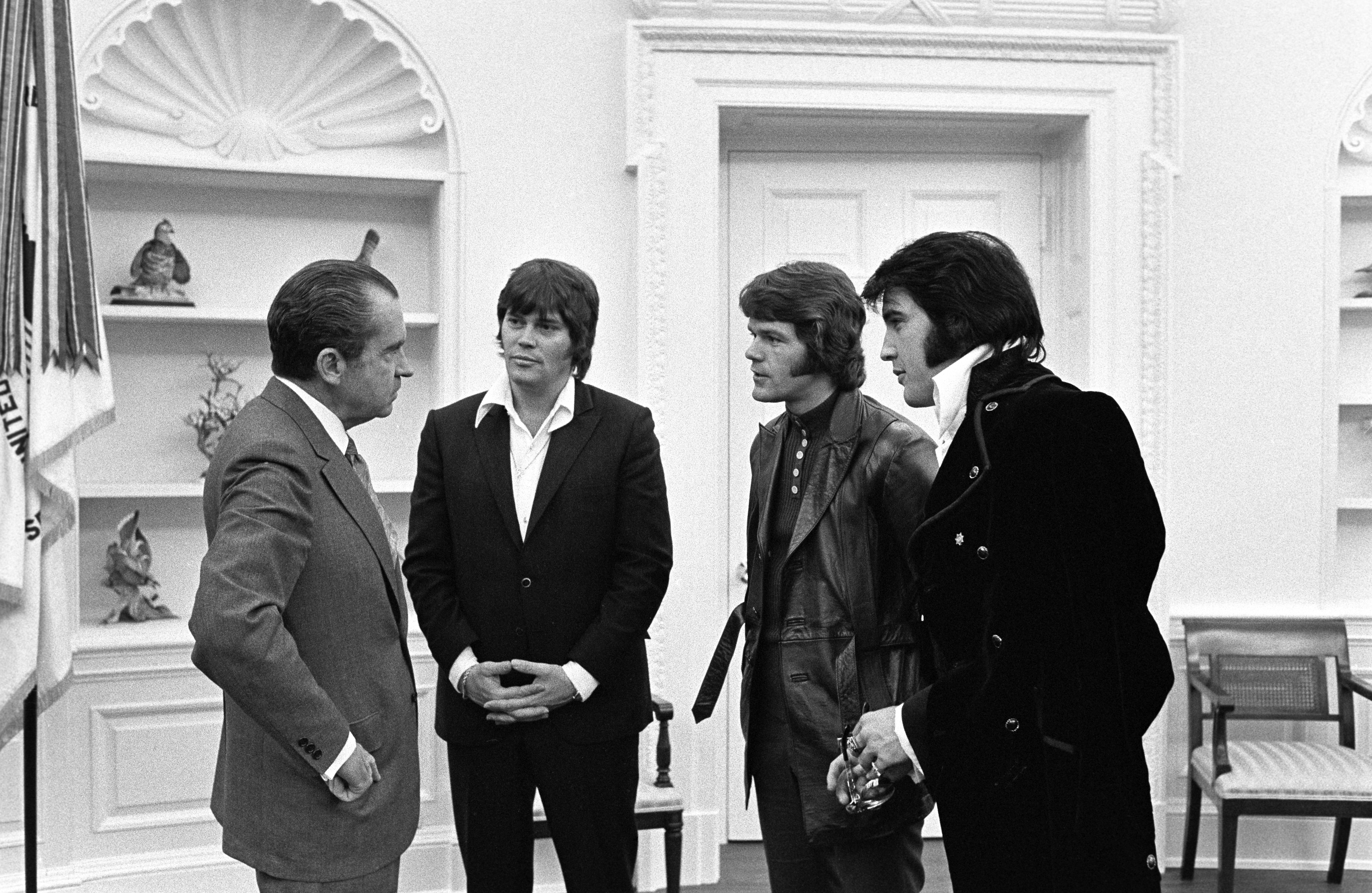 Elvis Presley, Delbert "Sonny" West, and Jerry Schilling meeting Richard Nixon. On December 21, 1970, at his own request, Presley met then-President Richard Nixon in the Oval Office of The White House.